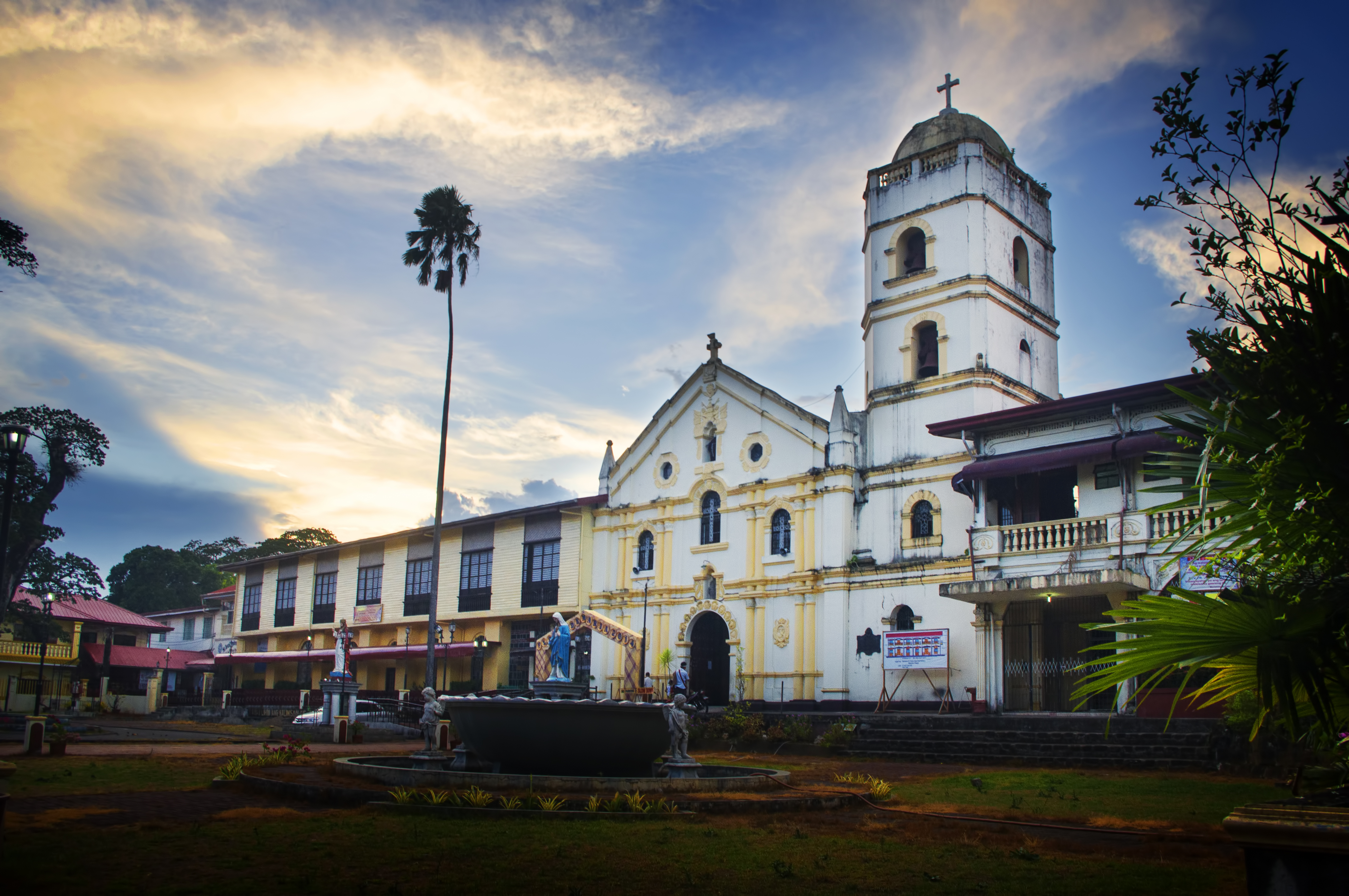 St Francis of Assisi Church (Sariaya), facade and plaza